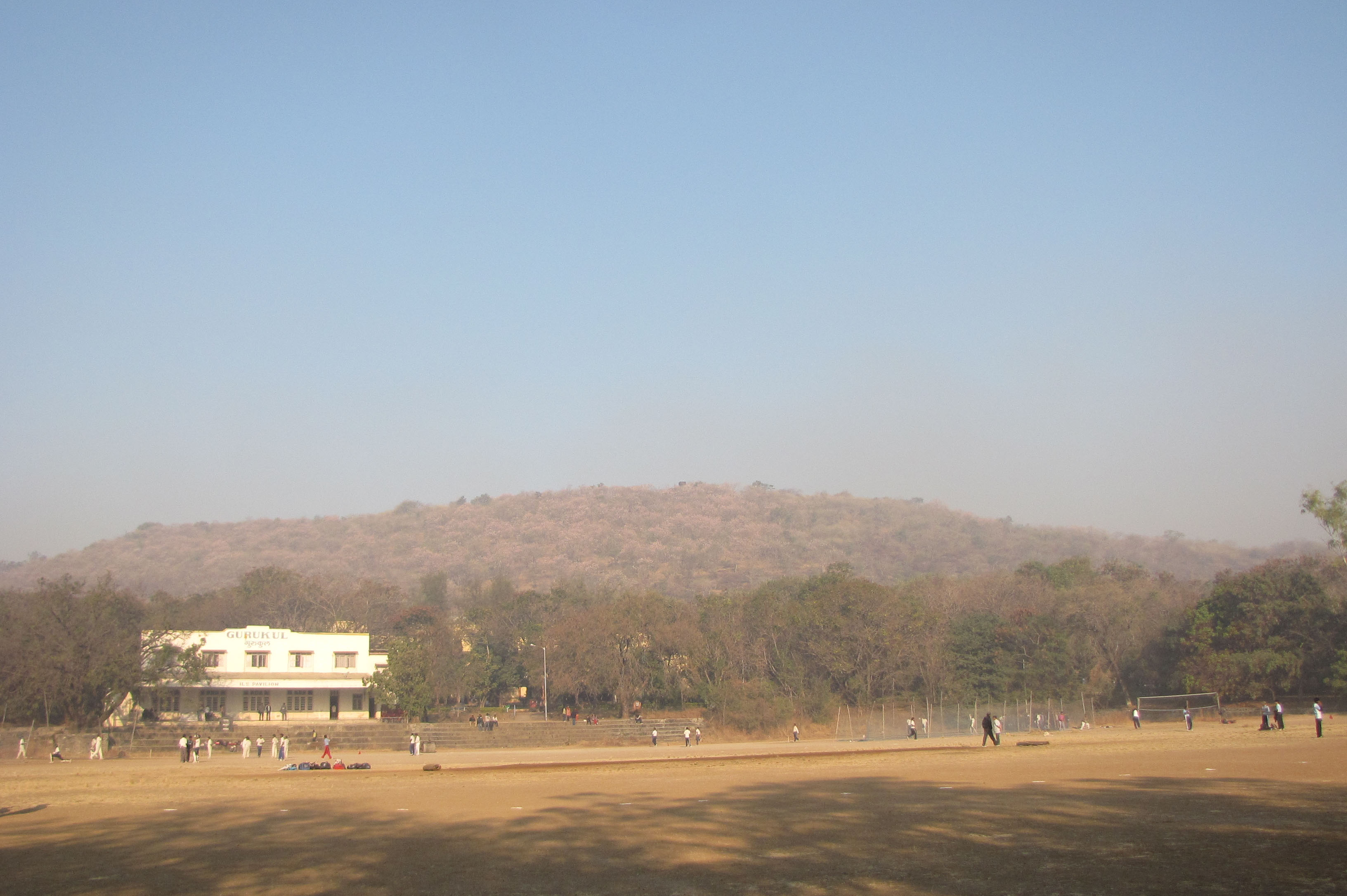 vetal tekdi as seen from law college,Pune